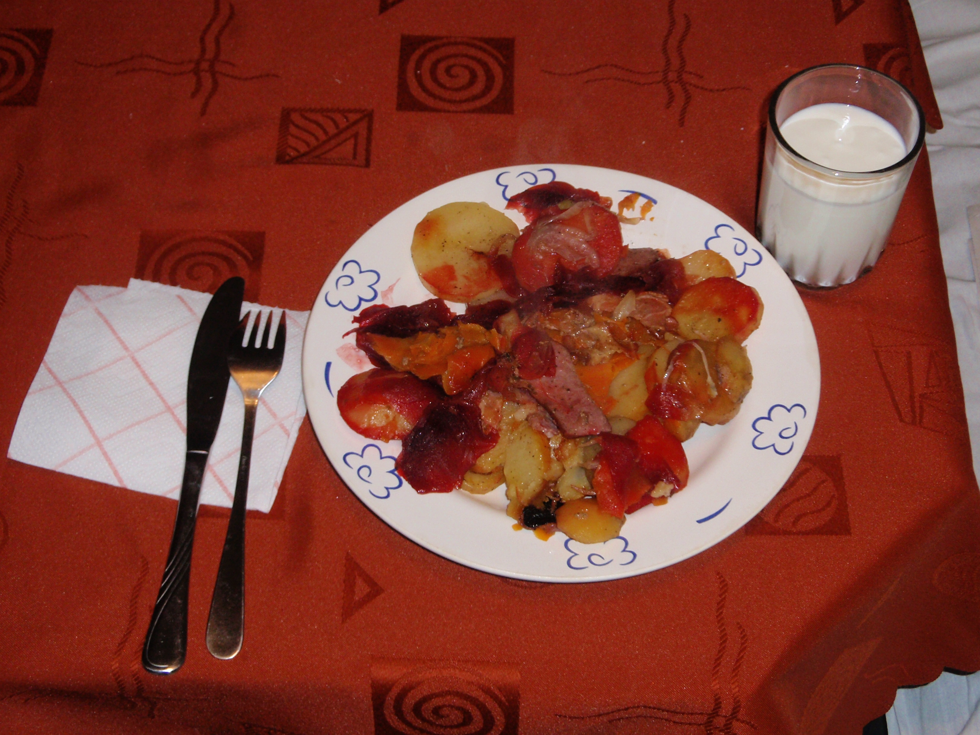 Pieczonki - Polish local dish from Zaglembia